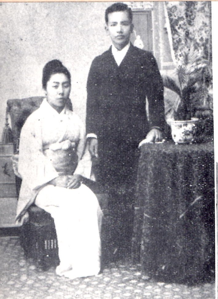 Wedding photo of Juji Nakada and Katsuko Kodate in 1894